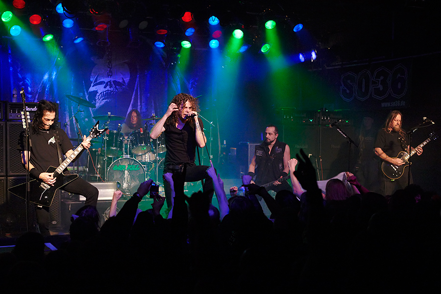 Photo of Overkill in Berlin, SO36, 12.02.2010